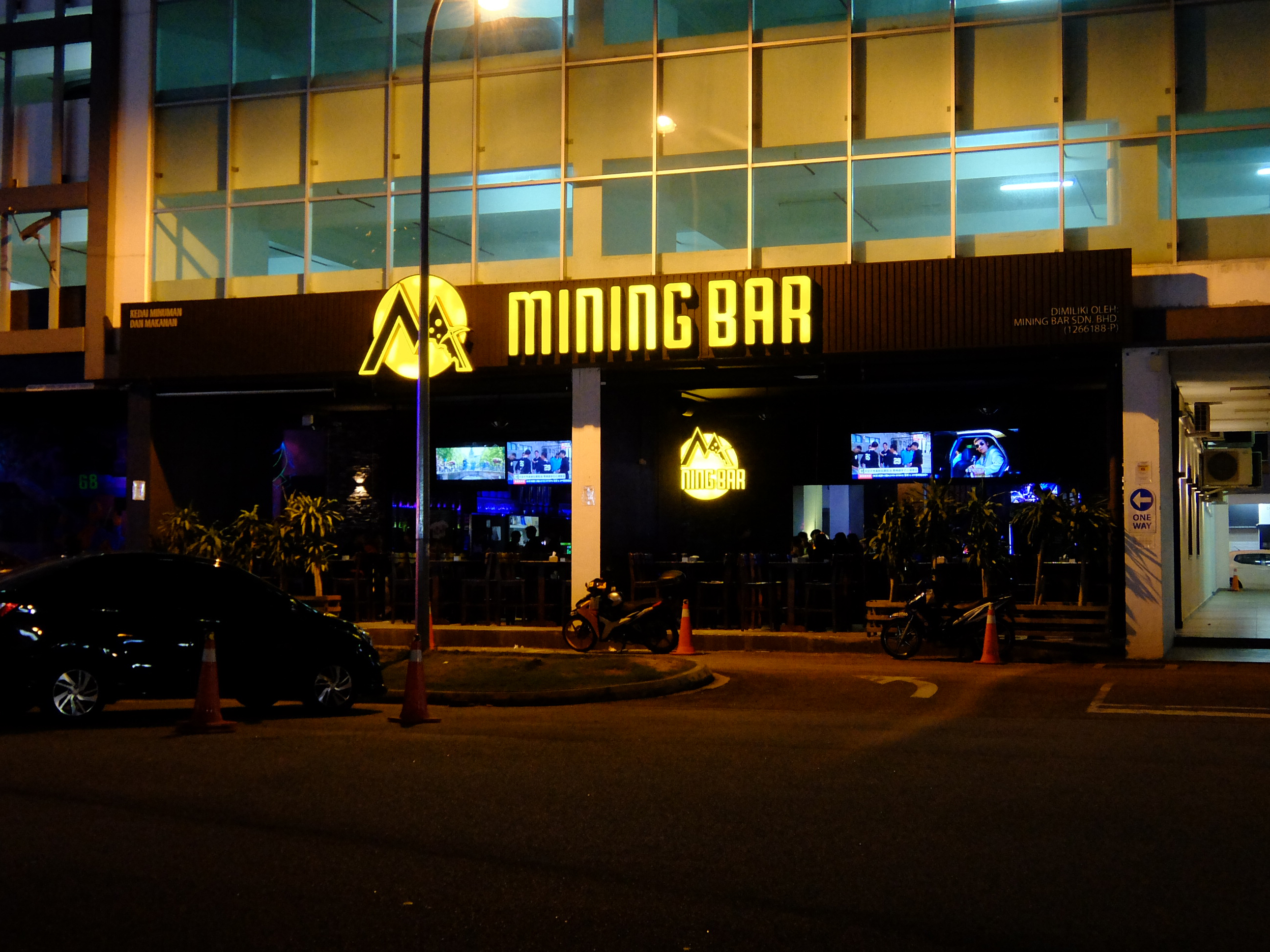 Mining Bar, Hartamas Tower, Mount Austin, Johor Bahru, Johor, Malaysia